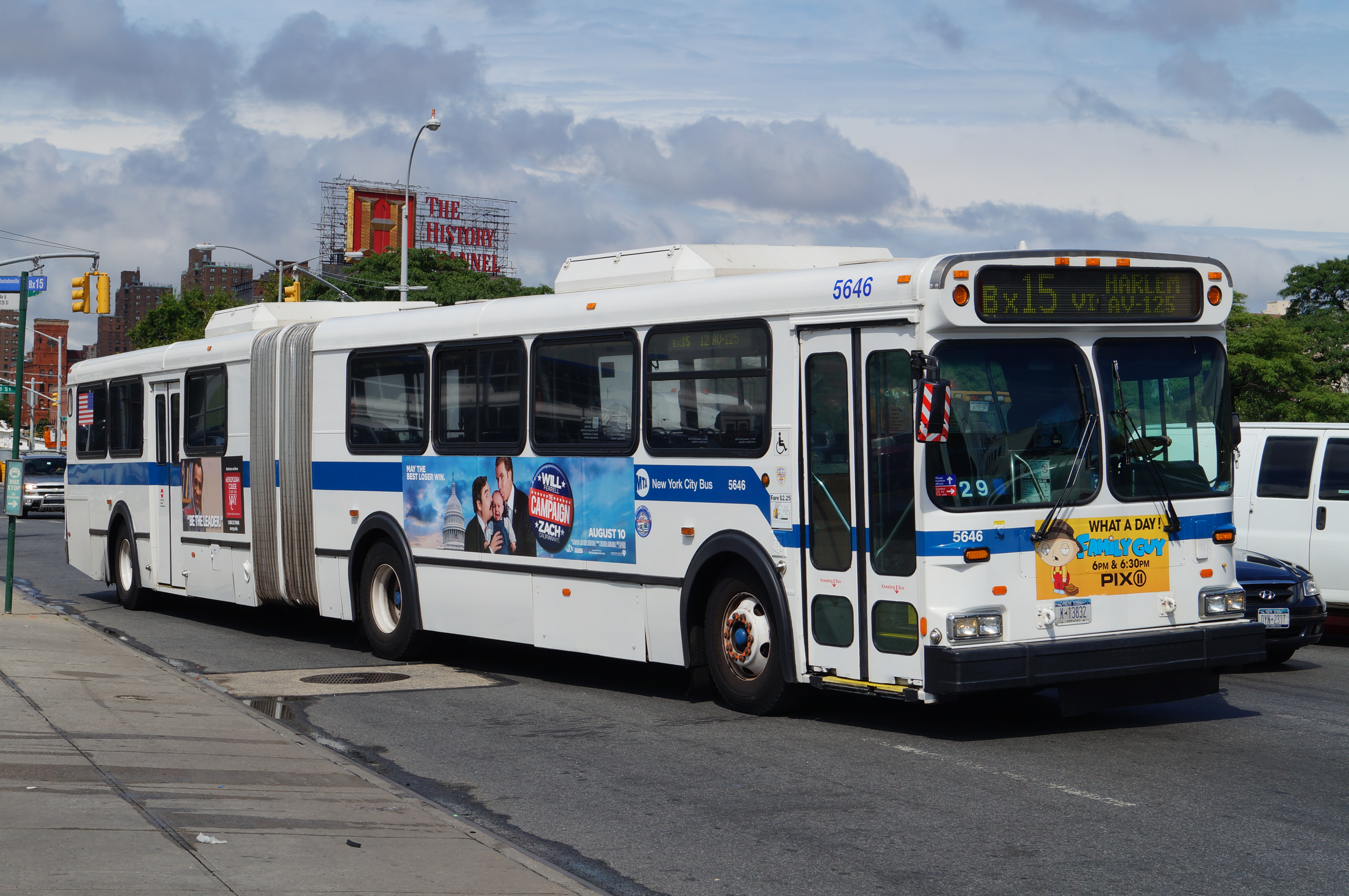 MTA NYC New Flyer D60 5646 Bx15 bus along 2nd Ave.